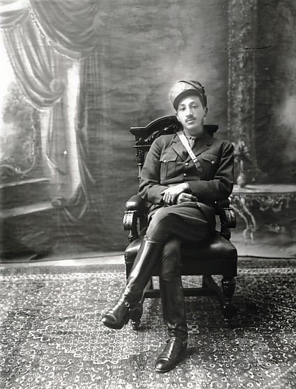 Studio photograph of Mohammad Zâher Khân, son of Mhd Nâder Shâh, in military uniform, seated in a heavy carved armchair. Accession number: 2006.1387 Inventory number: NA 28